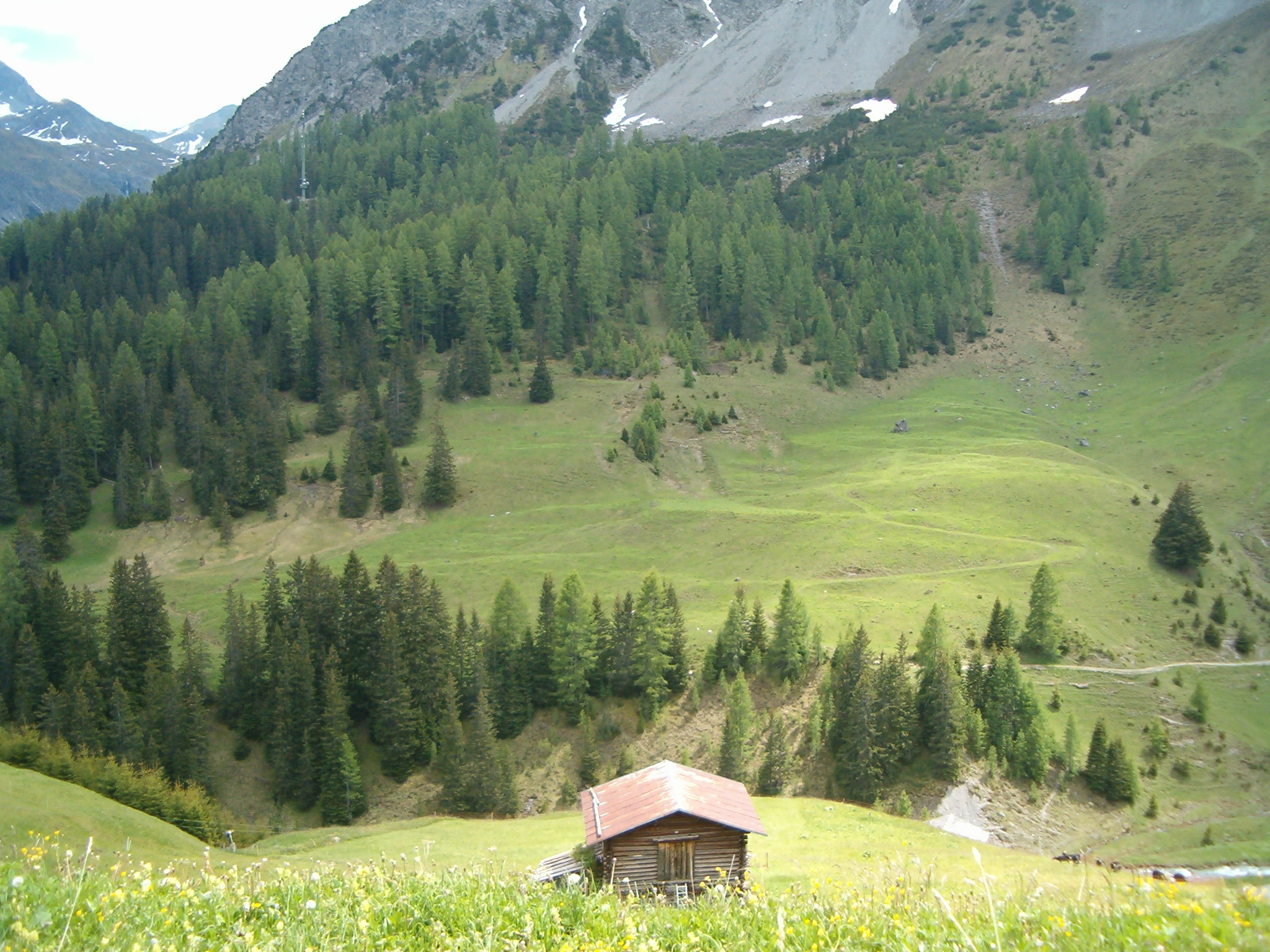 The Bärenbad in Arosa with ancient ski-jumping hill